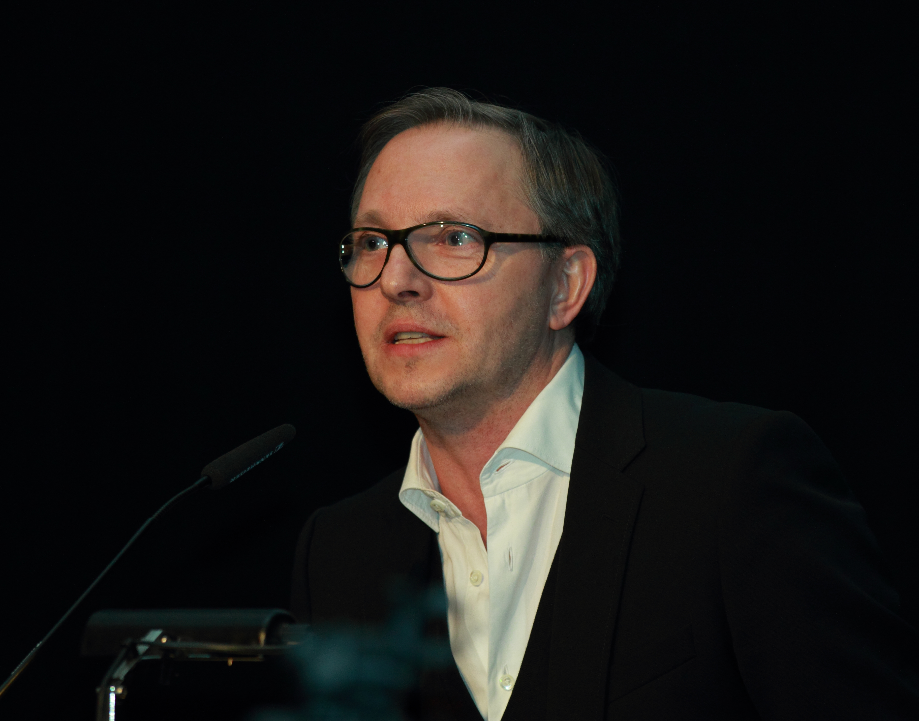 German comedian Olli Dittrich, reading at Lit.Cologne festival 2012